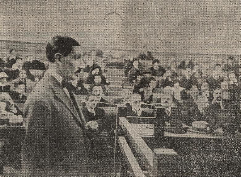 Press photograph in Transylvania's Cosânzeana review. Original caption: "The trial in Athens: The main witness for the prosecution: Colonel Passaris, former sub-chief for the General Staff, making his confession." This refers to the 1922 Trial of the Six (Díki ton Éxi), whereby the Plastiras junta and the Venizelists prosecuted former Greek Prime Minister Dimitrios Gounaris, accusing him and his team of having engineered the country's defeat in the previous war on Turkey. The scene takes place in the Greek Parliament hall, converted into a "revolutionary court" for the occasion.